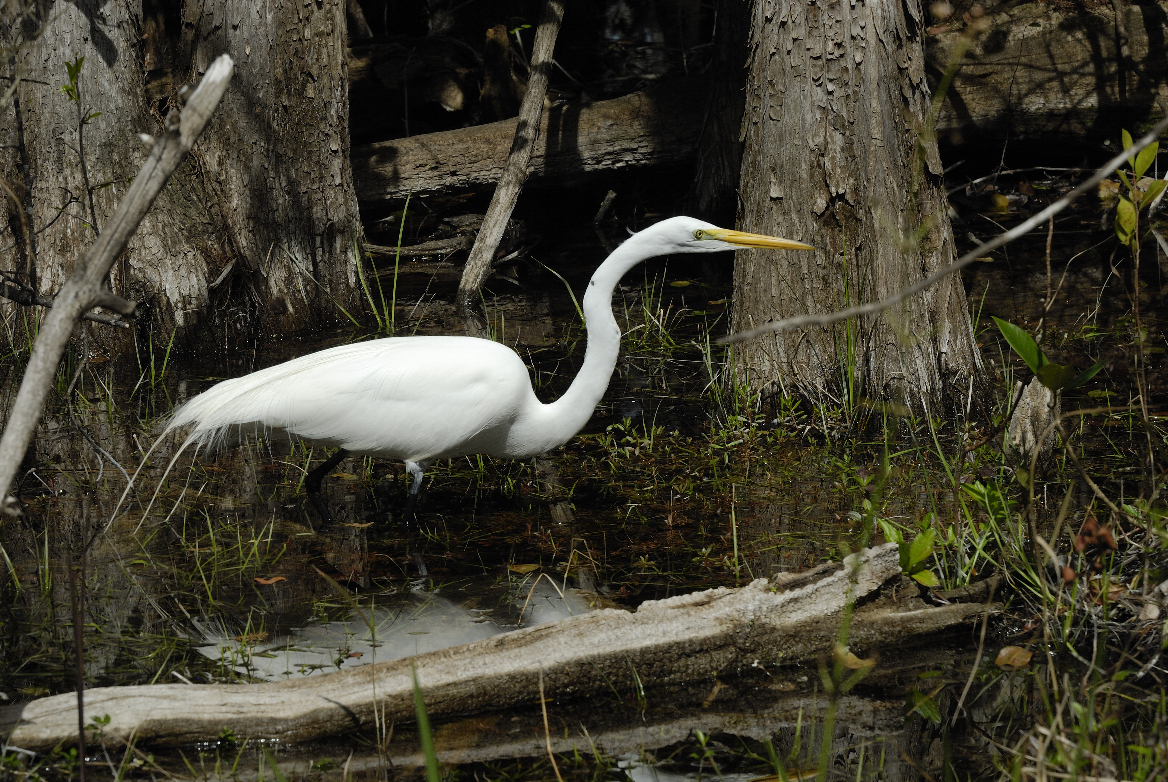 Great White Egret (Ardea alba) Loop Road Big Cypress National Preserve